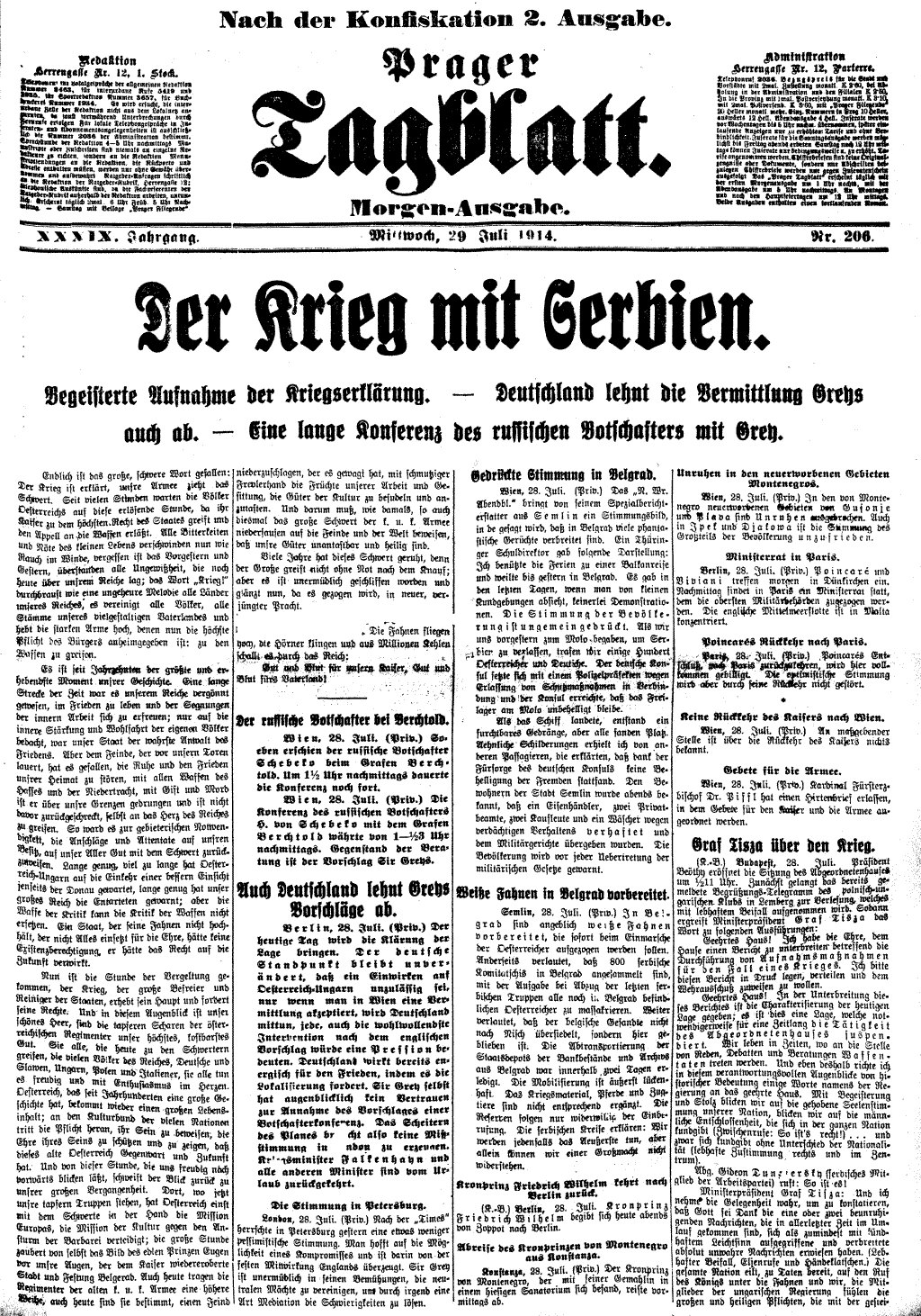 Titelseite des Prager Tagblatt vom 29. Juli 1914 Front page of Prager Tagblatt (German language daily newspaper, Prague) from 29 July 1914